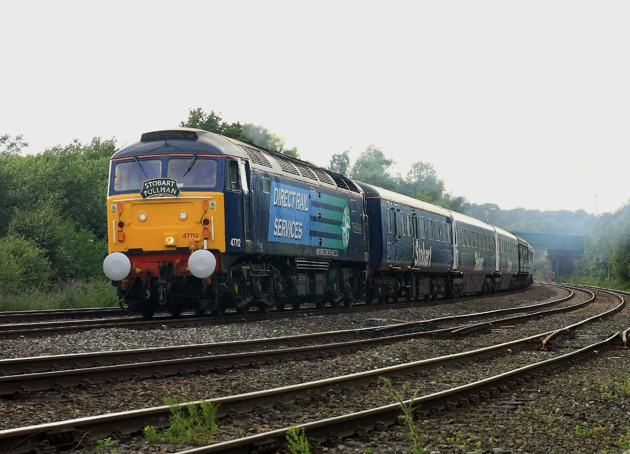 An Eddie Stobart Pullman diesel charter train hauled by DRS Class 47 number 47712 photo 2